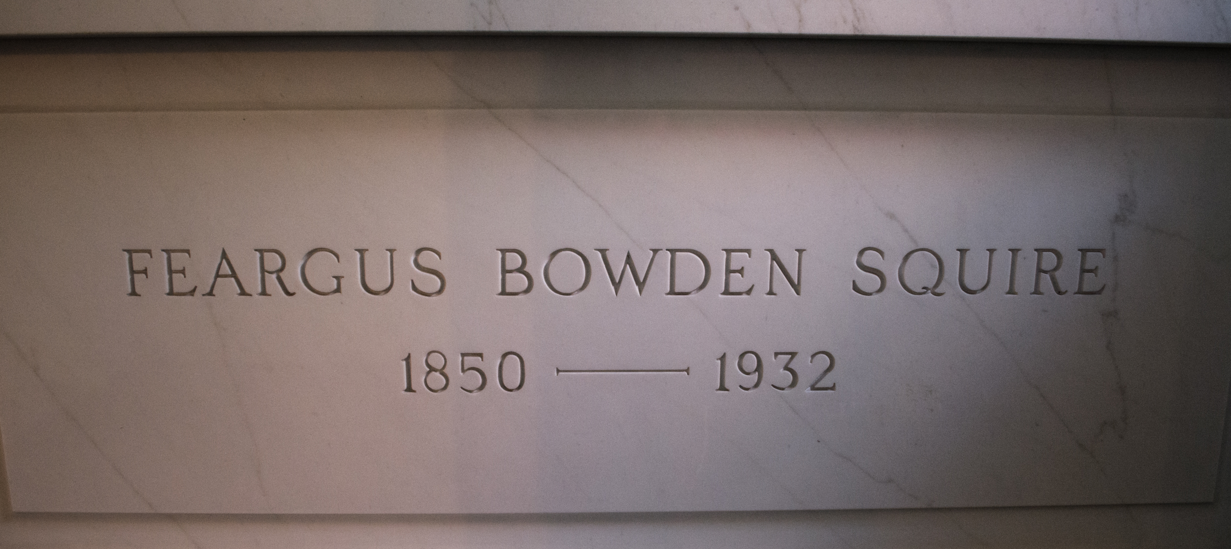 Crypt of Feargus Bowden Squire in the mausoleum at Knollwood Cemetery in Mayfield Heights, Ohio.